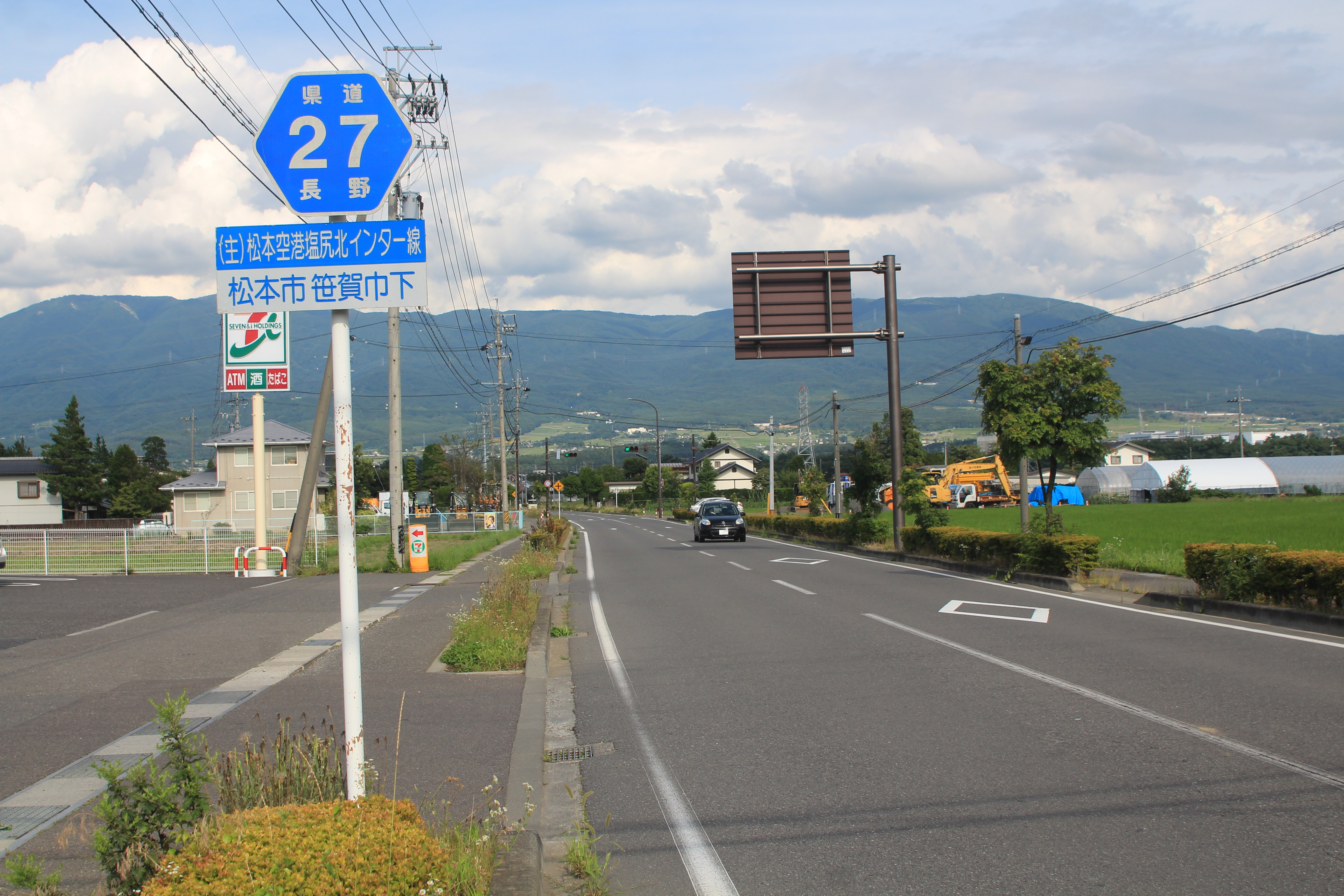 Nagano Prefectural Road Route 27 in Sasaga, Matsumoto, Nagano Prefecture, Japan.